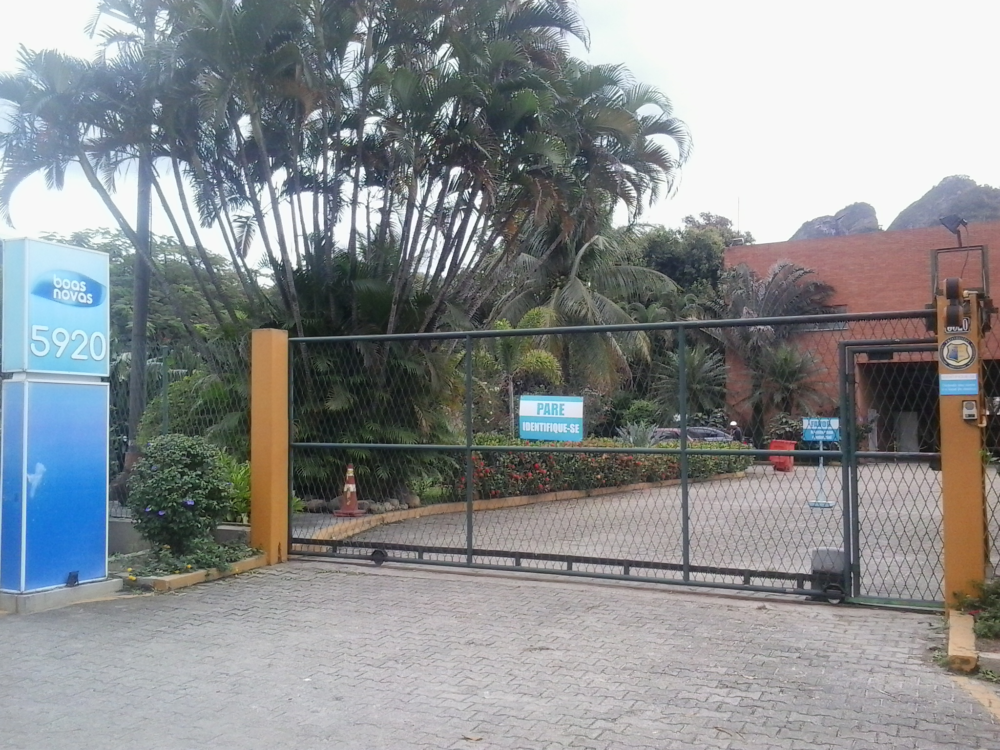 Headquarters of Boas Novas TV, channel 5 of Rio de Janeiro.